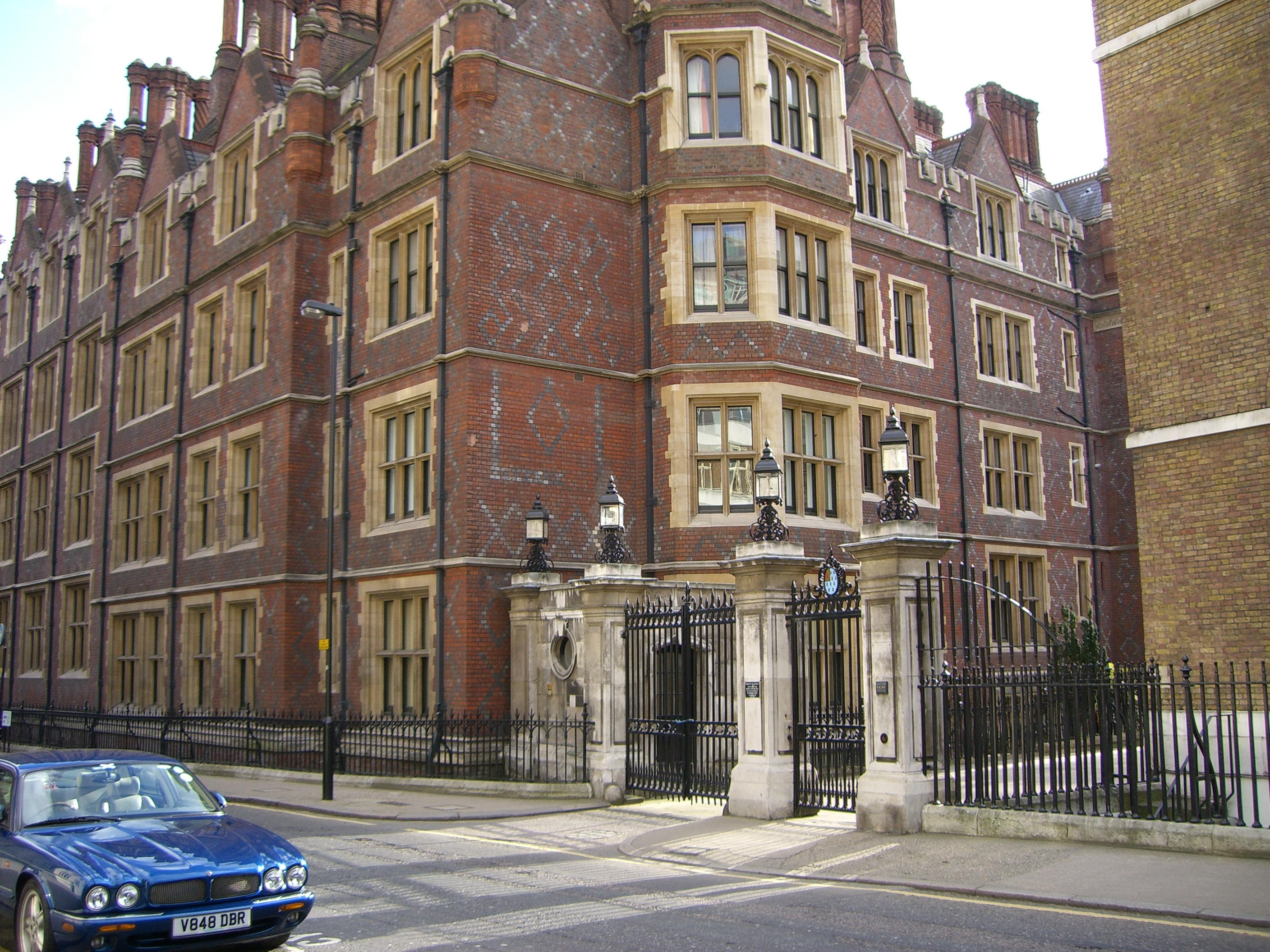 Lincoln's Inn Photo taken by User:Edward on 19 March 2006 with a Casio EX-S600.